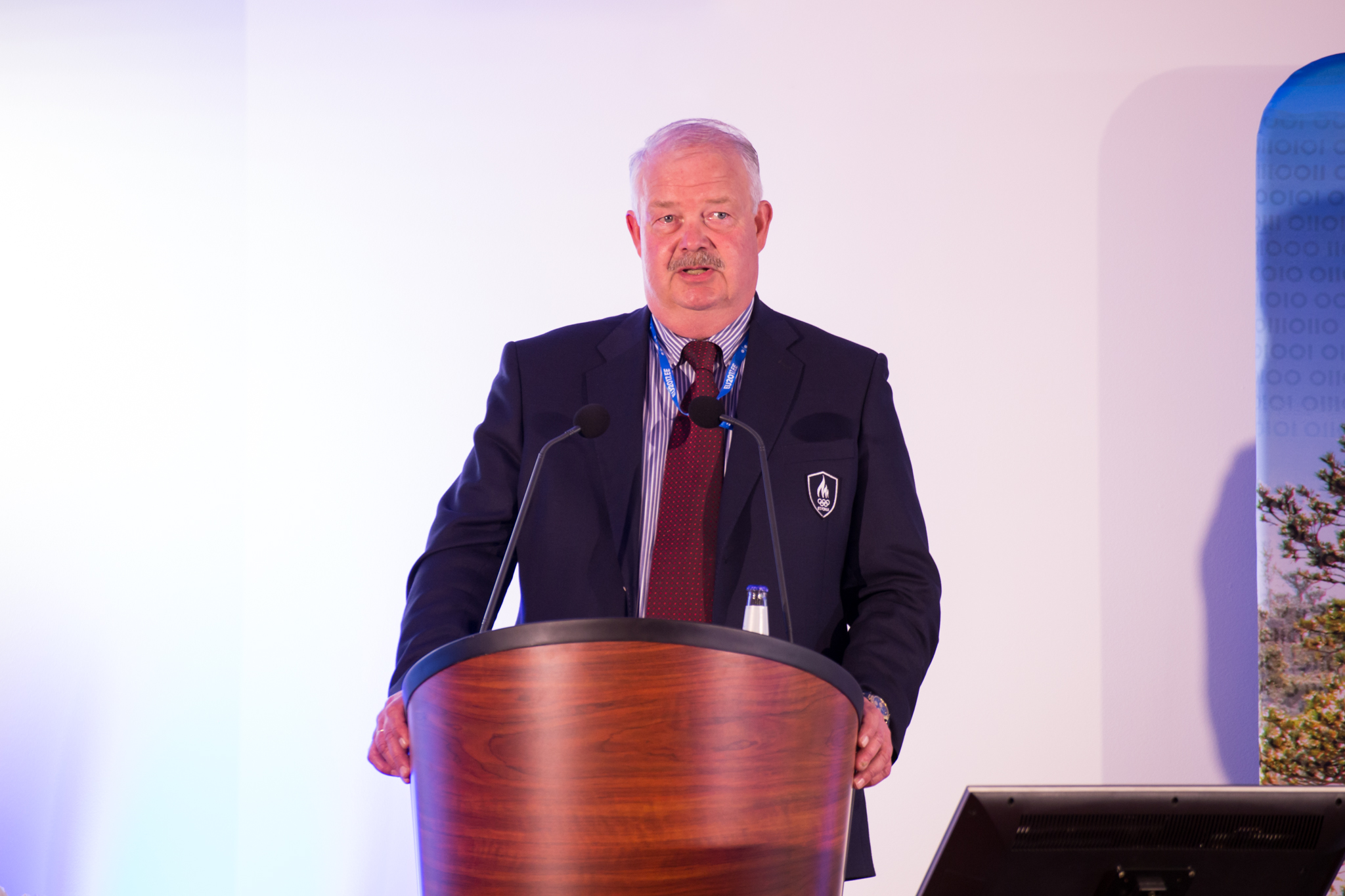 Jüri Tamm, Chair of the European Olympic Committee EU Commission and Vice-President of the Estonian Olympic Committee. Conference "The role of coaches in society. Adding value to peoples lives", Tallinn